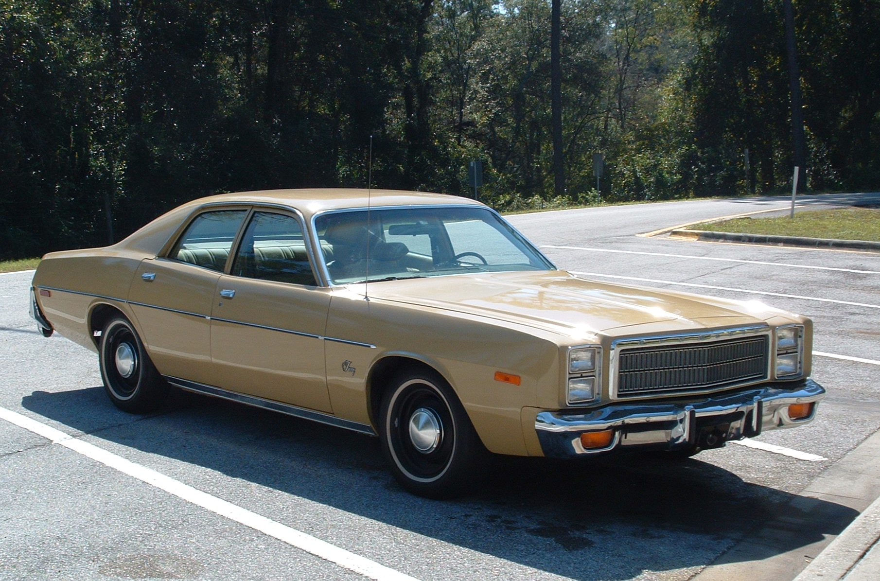 1978 Plymouth Fury